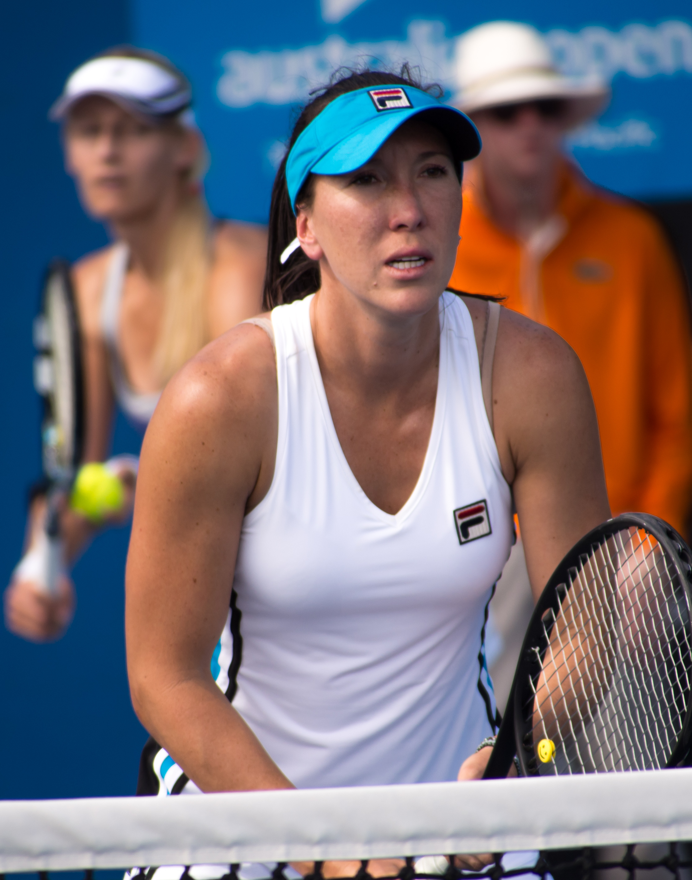 Jelena Jankovic during her 1st round doubles 3 set win with Mirjana Lucic-Baroni over Arina Rodionova and Olivia Rogowska at the 2013 Australian Open